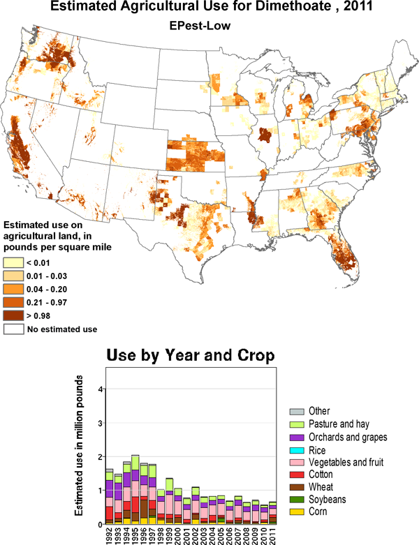 Dimethoate map of use, USA, 2011 (estimated)